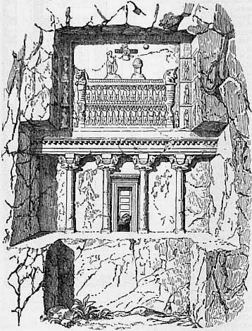 The Tomb of Darius, cut in the cliff at Nakshi Rustam, near Persepolis. Illustration from 1911 Encyclopædia Britannica, article Architecture.